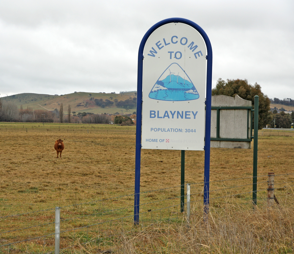 Town sign, northern entrance to town from Mid Western Highway, NSW, Australia